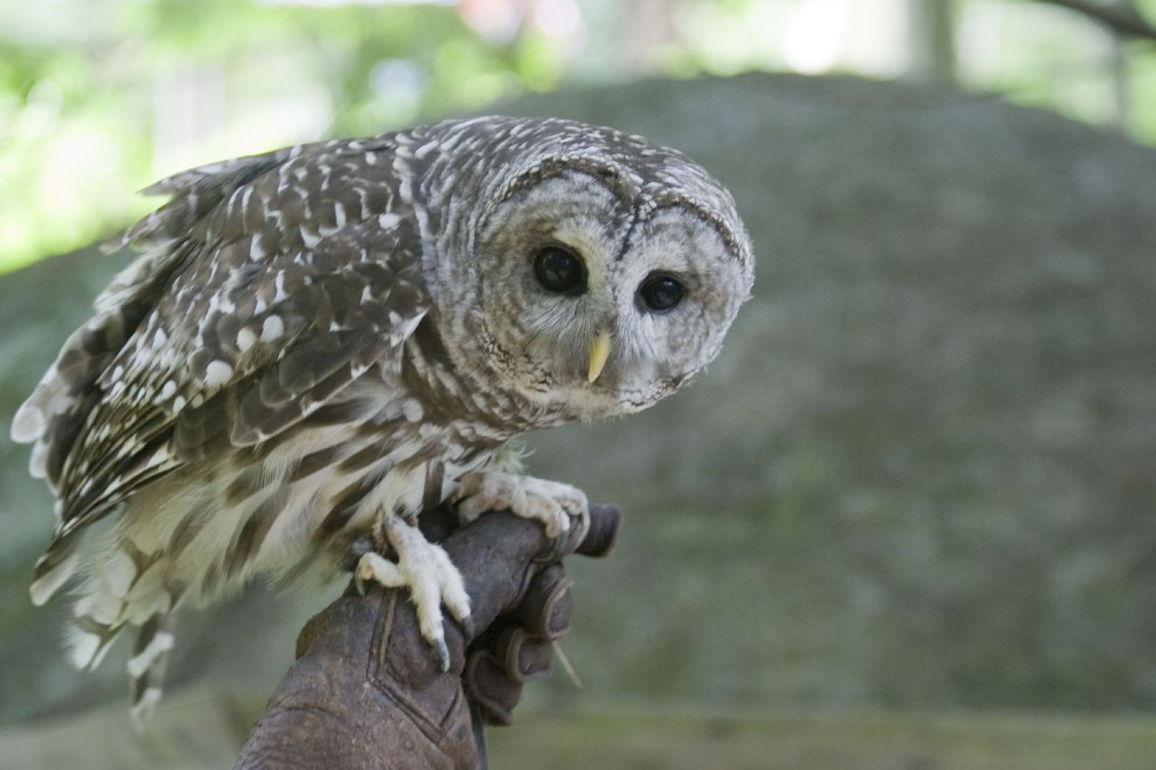 The Owl